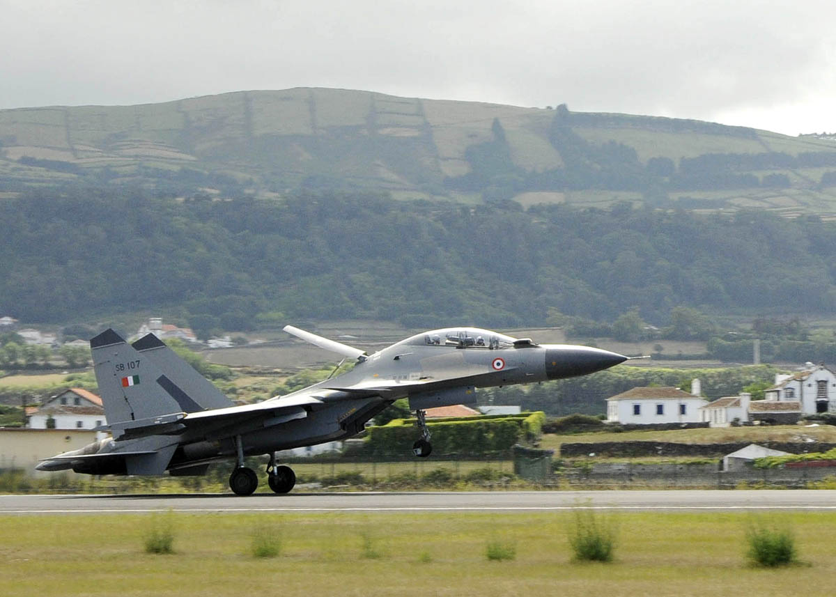 A Sukhoi-30 MKI fighter aircraft, part of the Indian air force, lands at Lajes Field on a stop as they return from a recent Red Flag. Red Flag is an advanced aerial combat training exercise, offers training to pilots from all branches of the United States military, NATO and other allied countries for real combat situations. “It’s the first time we have ever been there,” said Wing Commander George Thomas, commander of the 20th Squadron, the Lightings, “but I think we held our own.” He also said, “It was a very good exercise, very challenging and it was had outstanding training value.”